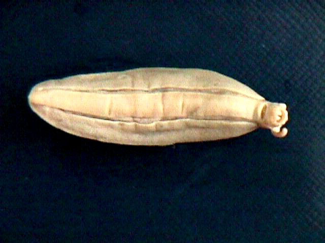 Diplosolenodes occidentalis, synonym: Vaginulus occidentalis, Escudo del Municipio el Hatillo